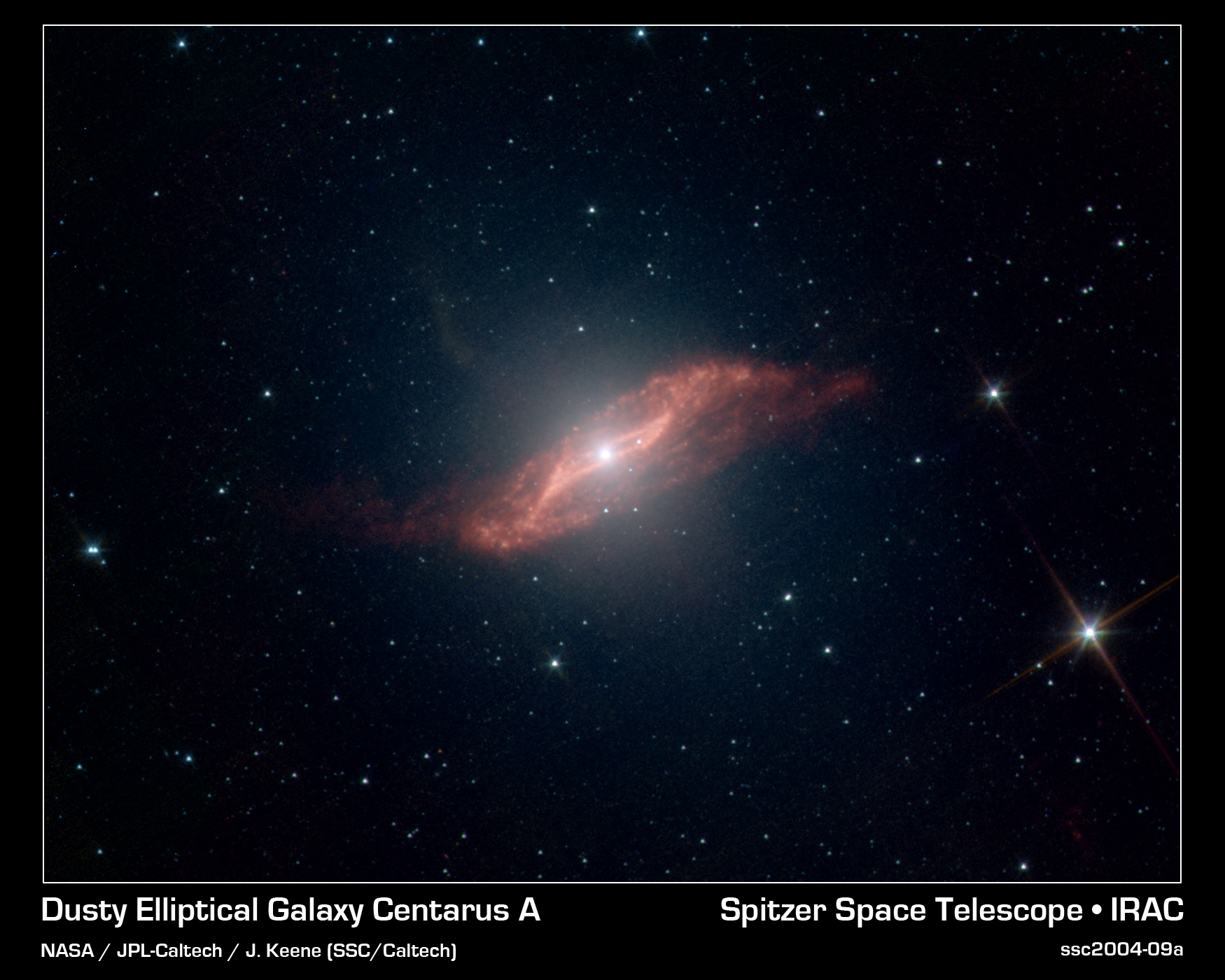 This image taken by NASA's Spitzer Space Telescope shows in unprecedented detail the galaxy Centaurus A's last big meal: a spiral galaxy seemingly twisted into a parallelogram-shaped structure of dust. Spitzer's ability to see dust and also see through it allowed the telescope to peer into the center of Centaurus A and capture this galactic remnant as never before. An elliptical galaxy located 10 million light-years from Earth, Centaurus A is one of the brightest sources of radio waves in the sky. These radio waves indicate the presence of a supermassive black hole, which may be "feeding" off the leftover galactic meal. A high-speed jet of gas can be seen shooting above the plane of the galaxy (the faint, fuzzy feature pointing from the center toward the upper left). Jets are a common feature of galaxies, and this one is probably receiving an extra boost from the galactic remnant. Scientists have created a model that explains how such a strangely geometric structure could arise. In this model, a spiral galaxy falls into an elliptical galaxy, becoming warped and twisted in the process. The folds in the warped disc create the parallelogram-shaped illusion.